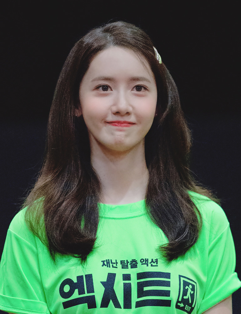 Im Yoon-ah at Exit Stage Greeting on August 3, 2019.